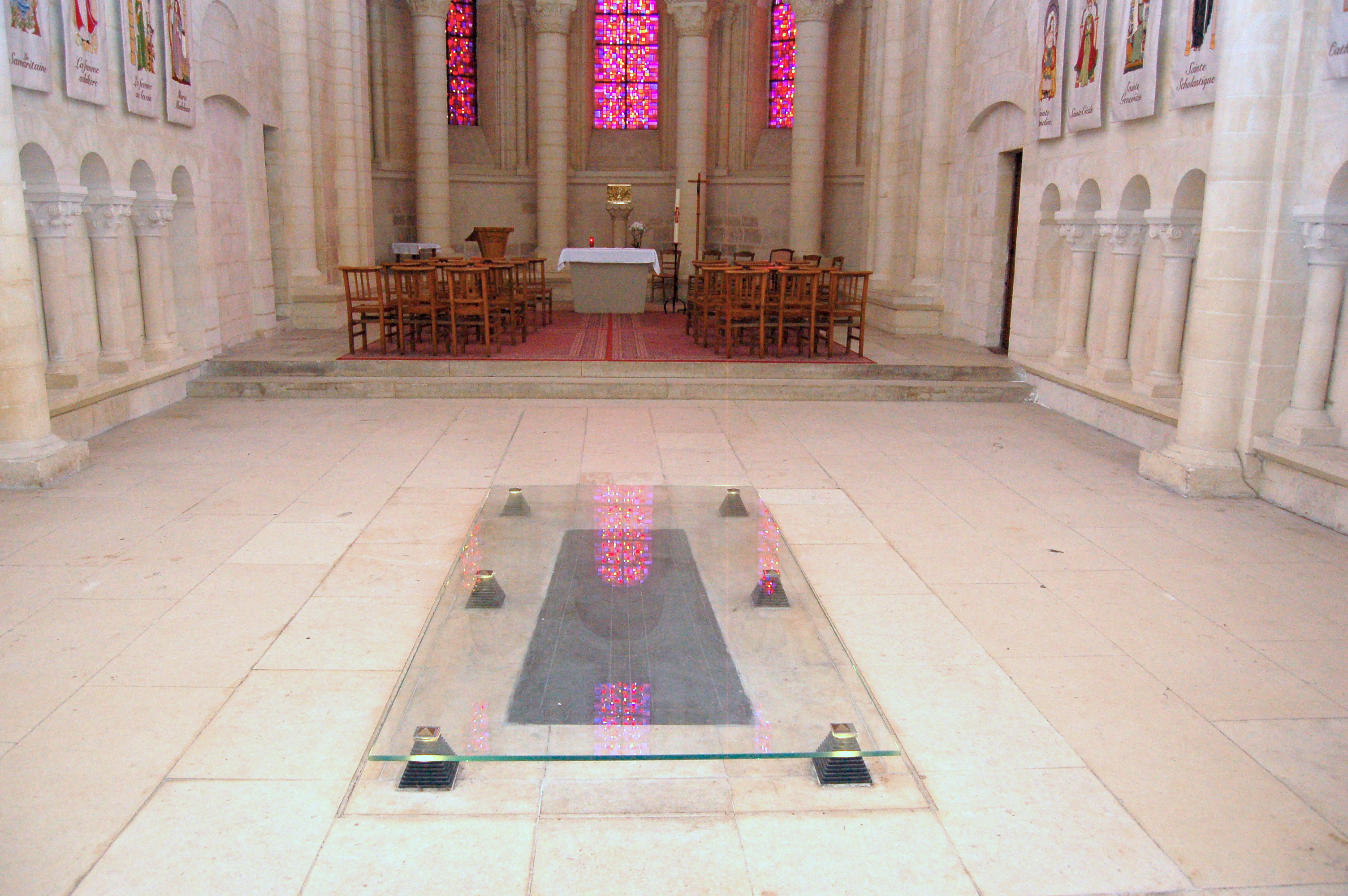 Photograph of the chancel of the Women's Abbey at Caen with Queen Matilda's grave shown in the centre